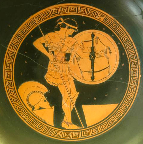 Hoplite 5th century